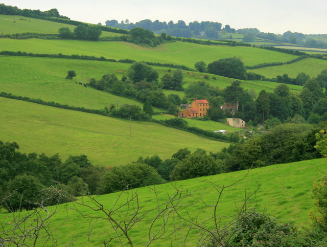 Mill Farm, near Woolley